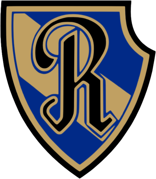 Logo of VfR 1897 Breslau, German football team.